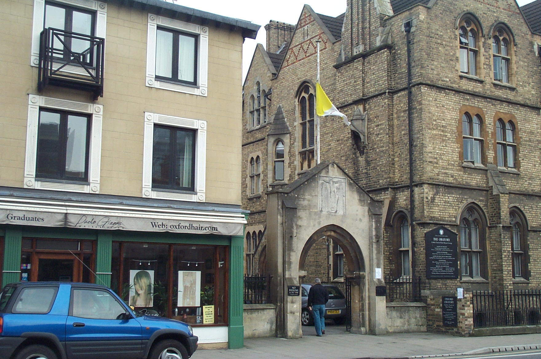 Oratory Church of St Aloysius Gonzaga, Oxford, with the flag of the Vatican City flying at half mast the day after the death of Pope John Paul II, 2005-04-03. Copyright © 2005 Kaihsu Tai.